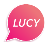 The image is from ( It is the logo of the company LucyPhone. A previous version of the logo was submitted for trademarking on 11 November 2009 with the United States Patent and Trademark Office under registration number 3817218 and serial number 77870076 ( To verify the trademark, go to Click on "Search Marks" under Trademarks Process window on the left. Select "Basic Word Mark Search (New User)" in the new window. Enter "LucyPhone" for "Search Term:" and select "The Exact Search Phrase" for "Result Must Contain:".